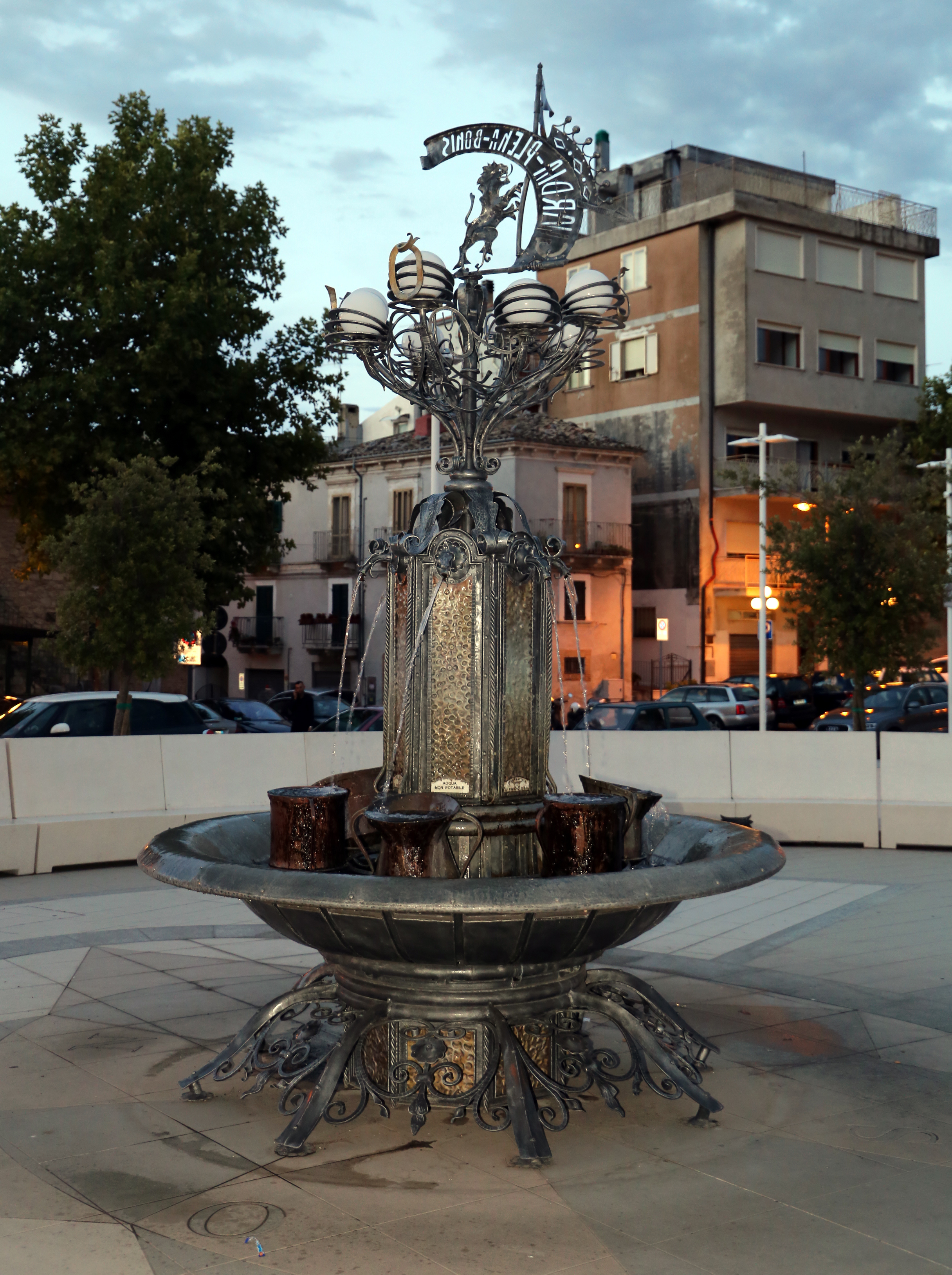 Guardiagrele